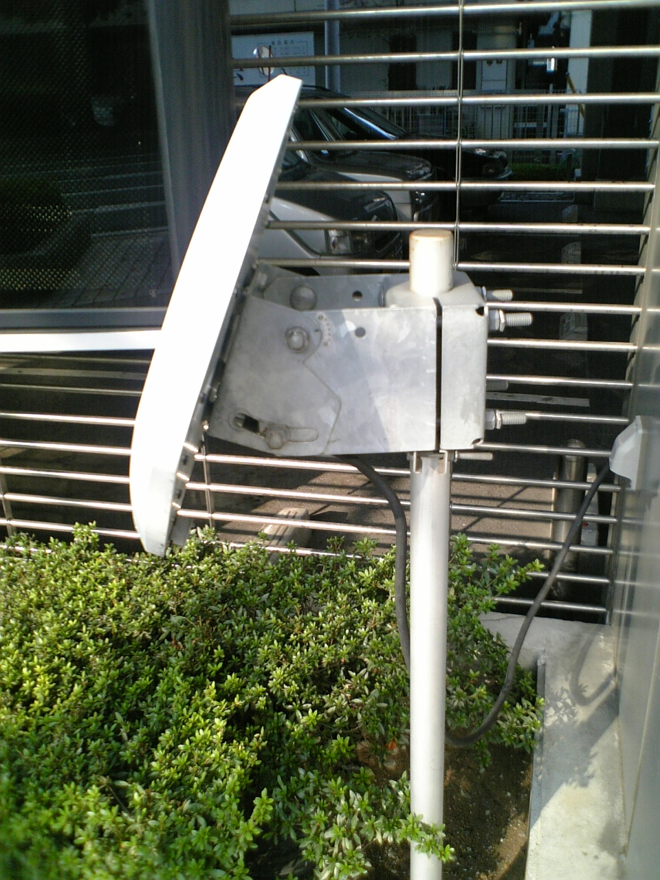 Wide Star